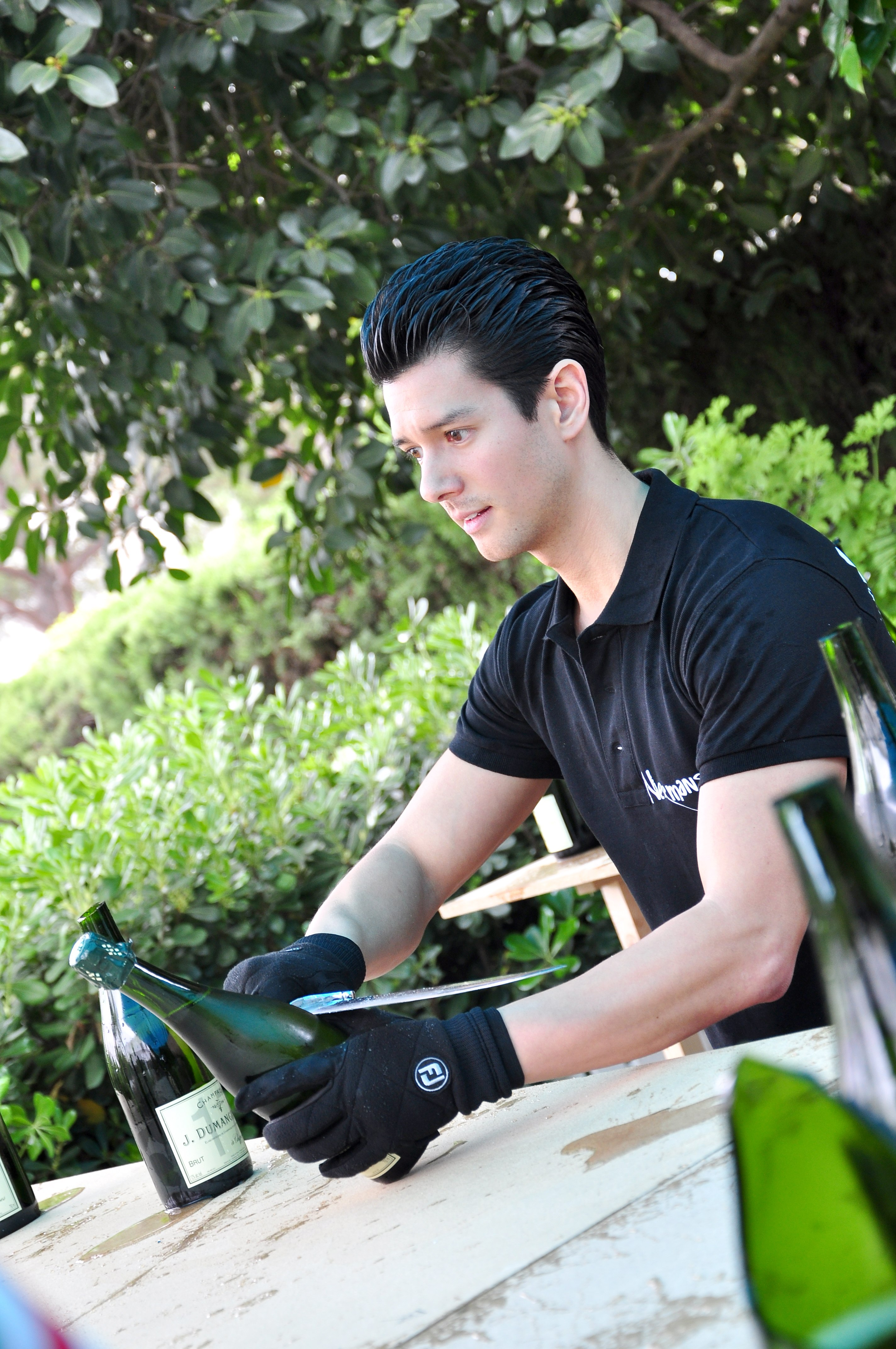 Julio Chang breaking the world record for Champagne Sabering